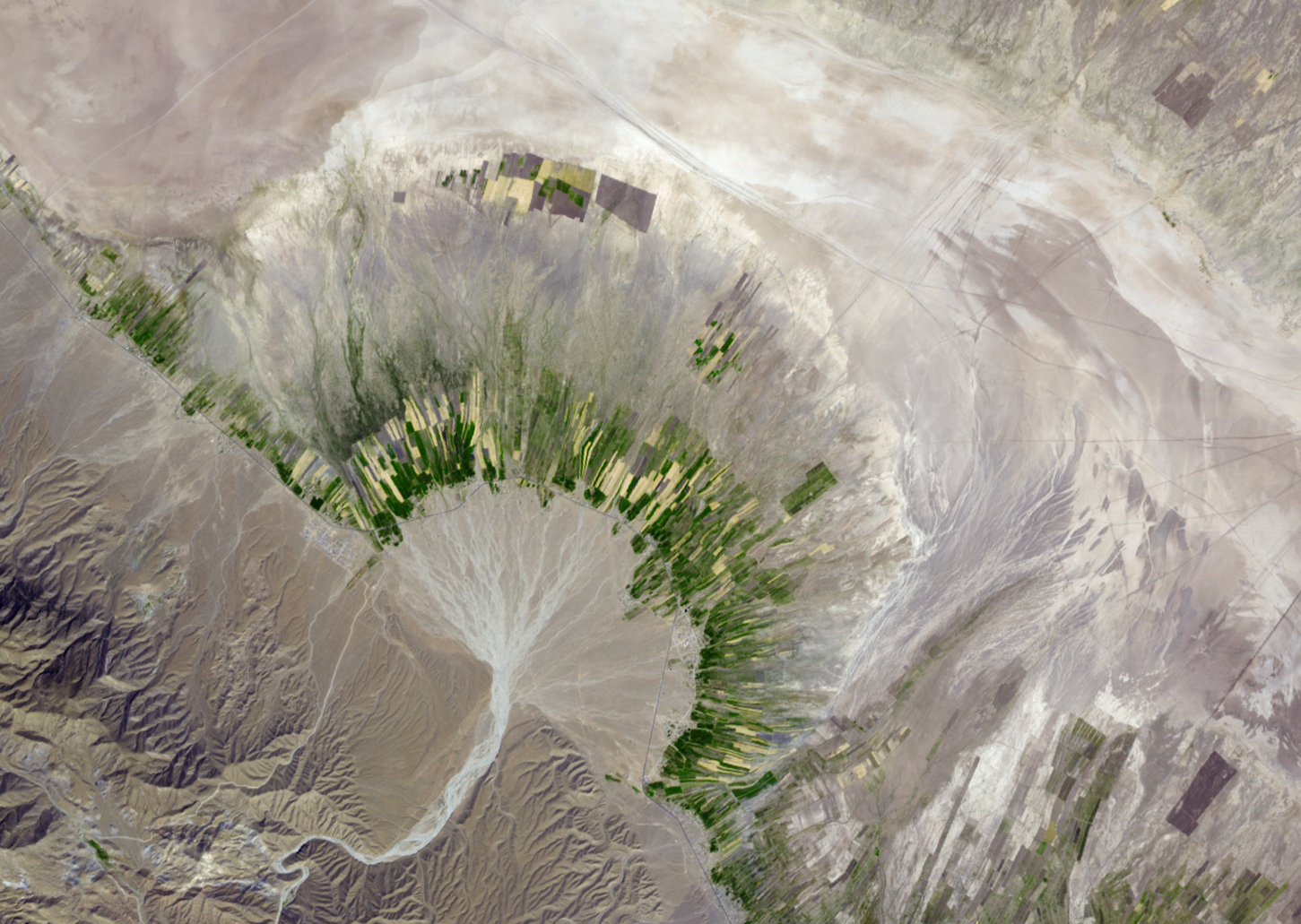 Seasonally dry salt lakes and the traces of ephemeral streams occupy many of the valleys of the Zagros Mountains in southern Iran. Much of the time, the rivers and lakes are dry above ground, but subterranean water flows along the same pathways. Where these subterranean streams flow out of the mountains, the water table comes closer to the surface, and it is more readily accessible through wells. This simulated natural-color image of southeastern Fars province in southern Iran shows a dry river channel carving through arid mountains toward the northeast. The dry river spreads out across the valley floor in a silvery fan. A broad belt of lush agricultural land follows the curve of the fan and stretches out along a road that runs parallel to the ridgeline. The valley-ward margin of the intensely green agricultural belt fades to dull green along streams (or irrigation canals). The image was captured by the Advanced Spaceborne Thermal Emission and Reflection Radiometer (ASTER) on NASA’s Terra satellite on October 12, 2004.